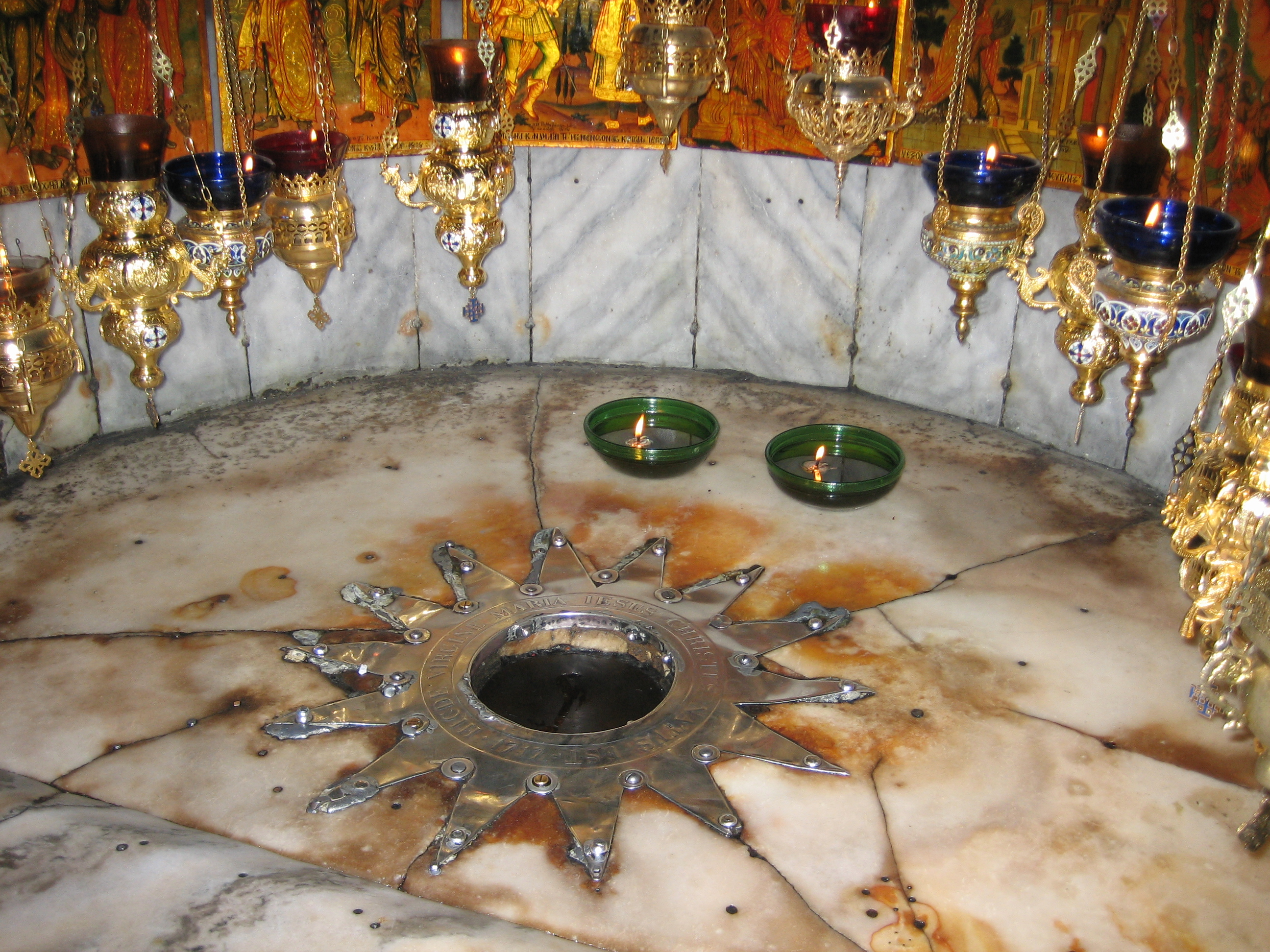 The Church of the Nativity in Bethlehem. Star of Nativity. / Crkva Rođenja Isusova u Betlehemu. Zvijezda na mjestu Rođenja.